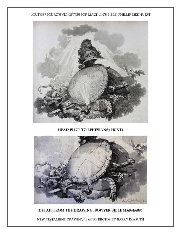 Head-piece to Ephesians. Ephesians 6:11 etc. Vignette with a pile of armour on a ledge in clouds, including a helmet surmounted by a sculpted lion; letterpress in two columns below and on verso. 1800. Inscriptions: Lettered below image with production detail: "P J de Loutherbourg del et invt", "J. Heath direx" and publication line: "Pubd by T. Macklin, Fleet Street". Print made by James Heath. Dimensions: height: 490 millimetres; Width: 400 millimetres.